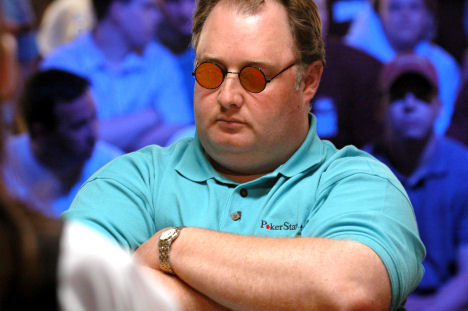 Greg Raymer in the 2005 World Series of Poker.